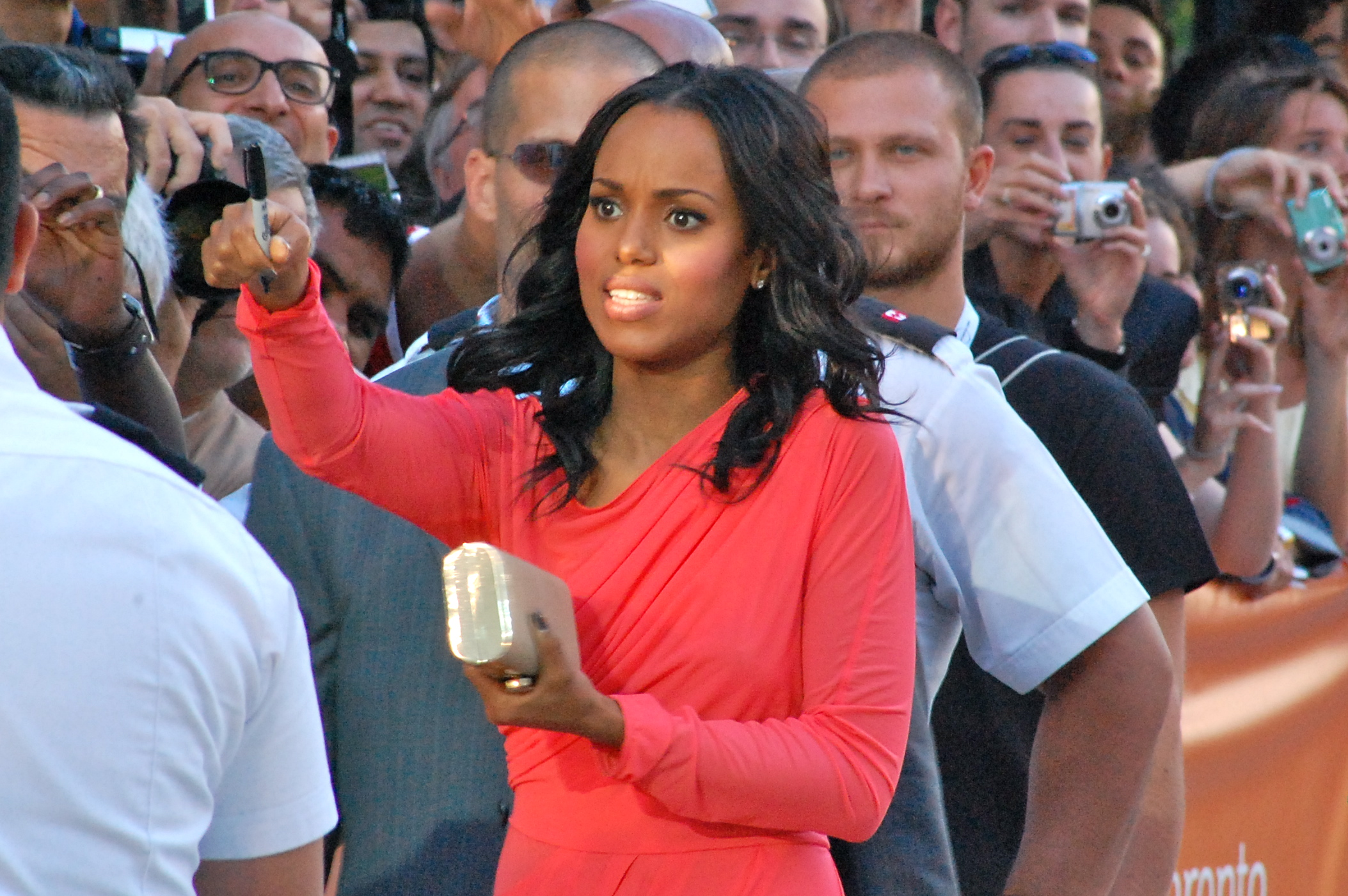 Mother and Child premiere - Roy Thompson Hall - September 14, 2009